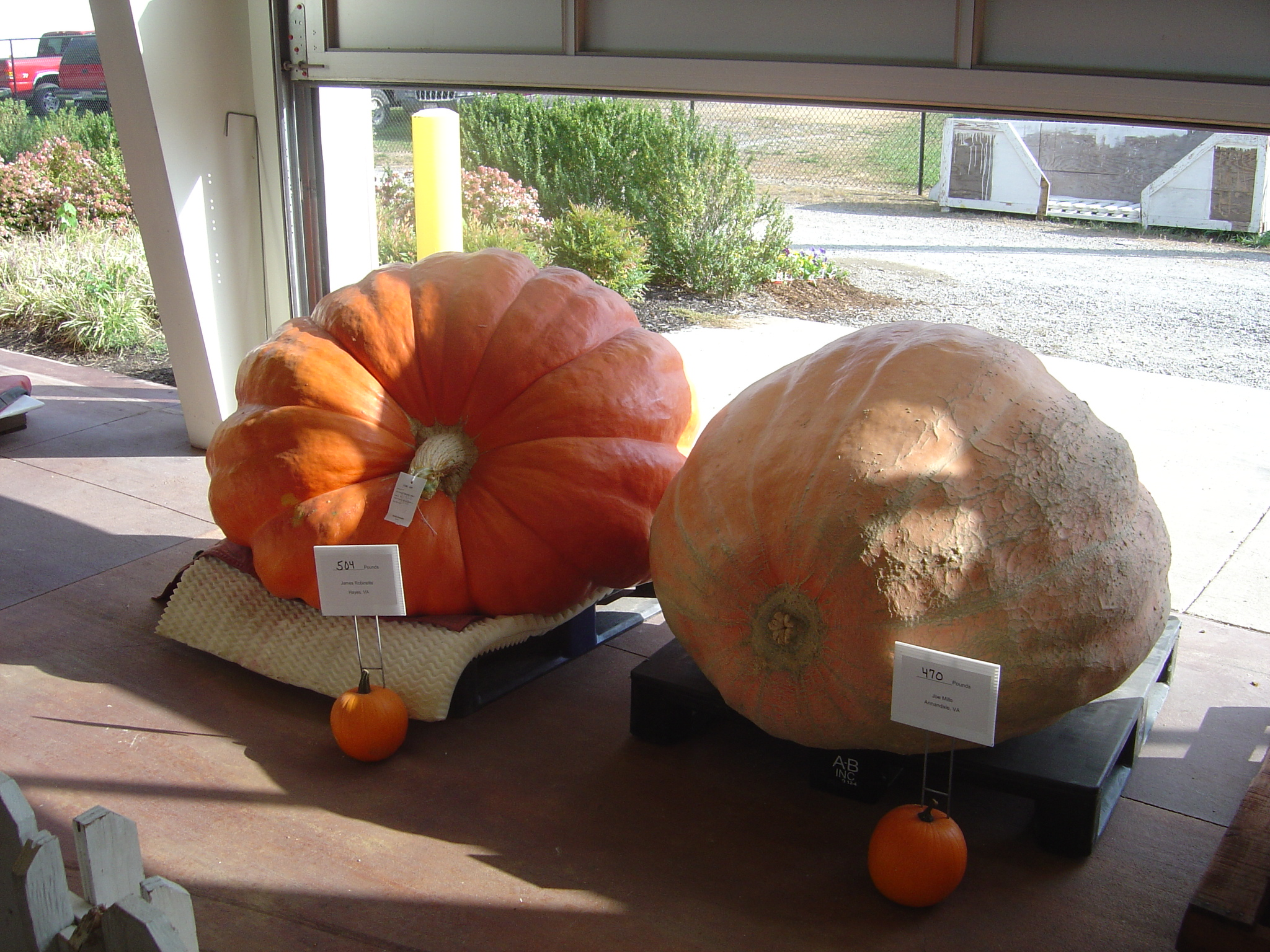 Competitive Entries for largest pumpkin at the State Fair of Virginia, 2007. Photograph taken by Joy Schoenberger